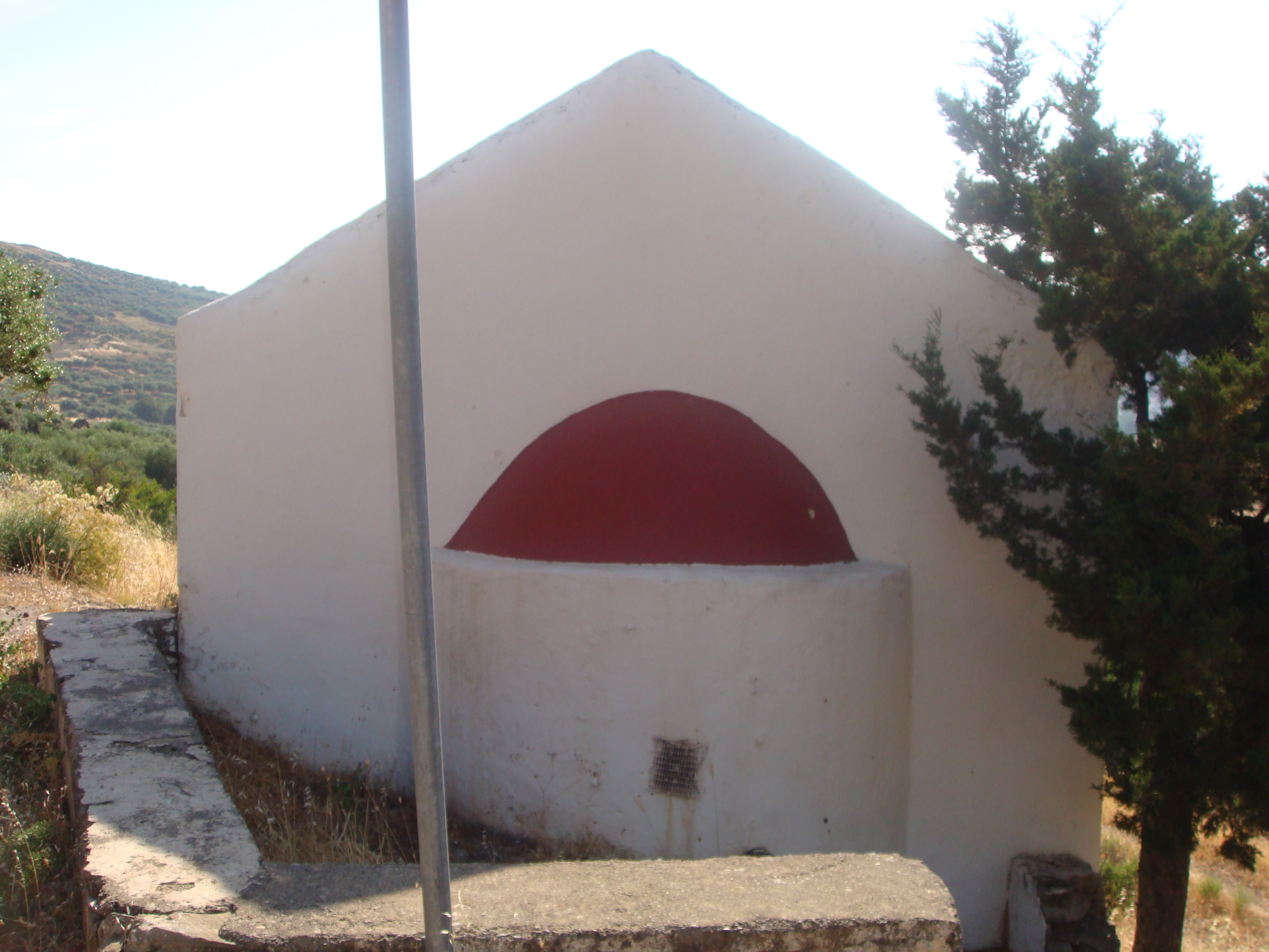 The church of Agios Georgios in Ano Viannos, Iraklion prefecture.